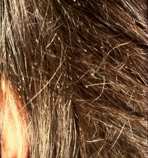 KostaMumcuoglu (talk) 15:10, 18 November 2007 (UTC)